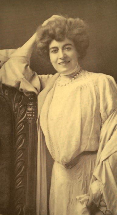 Actress Mrs. Leslie Carter, on page 227 of the May 1906 Munsey's Magazine.